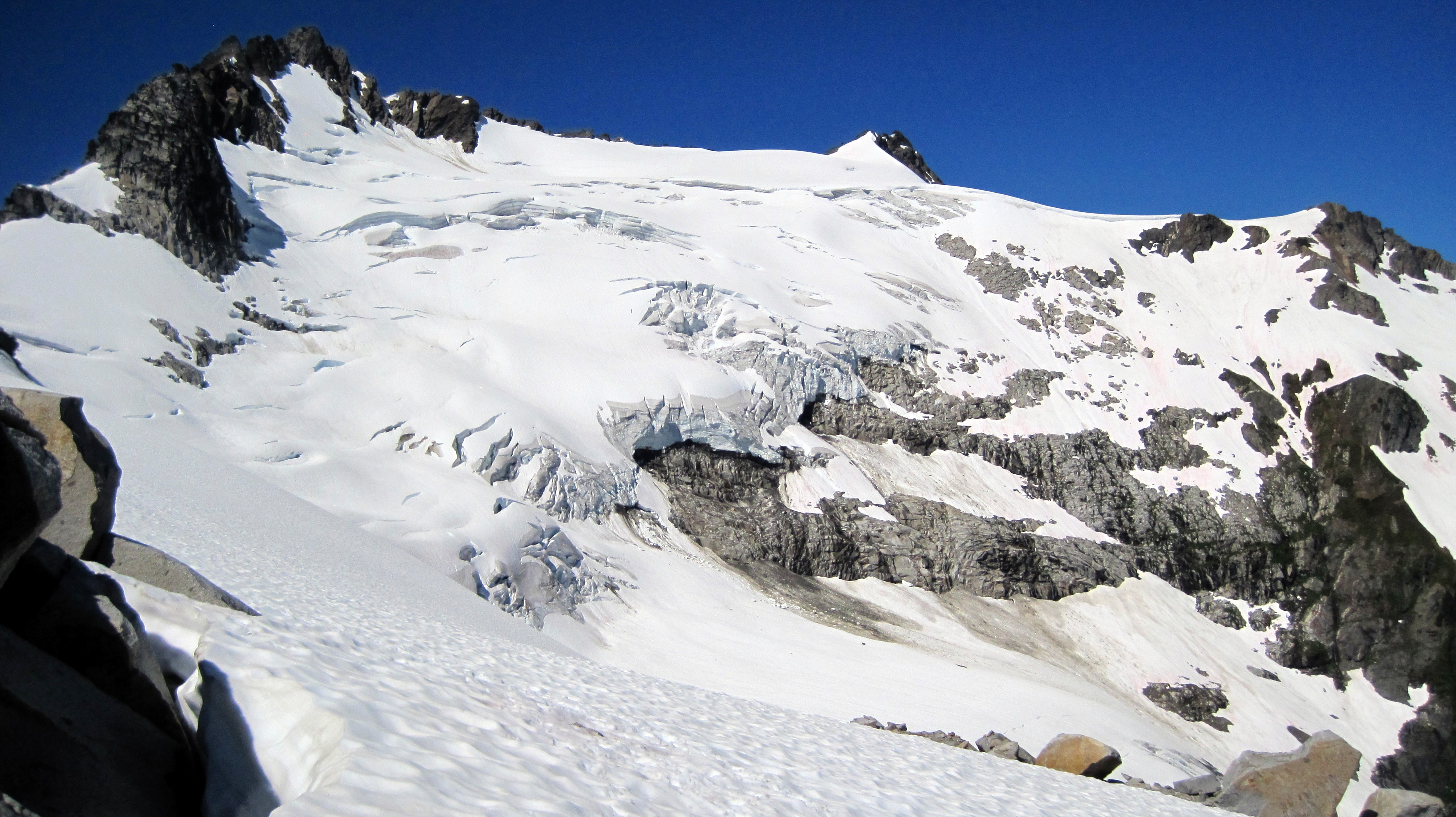 Clark Glacier on Clark Mountain. AKA Walrus Glacier. North Cacades of Washington state.